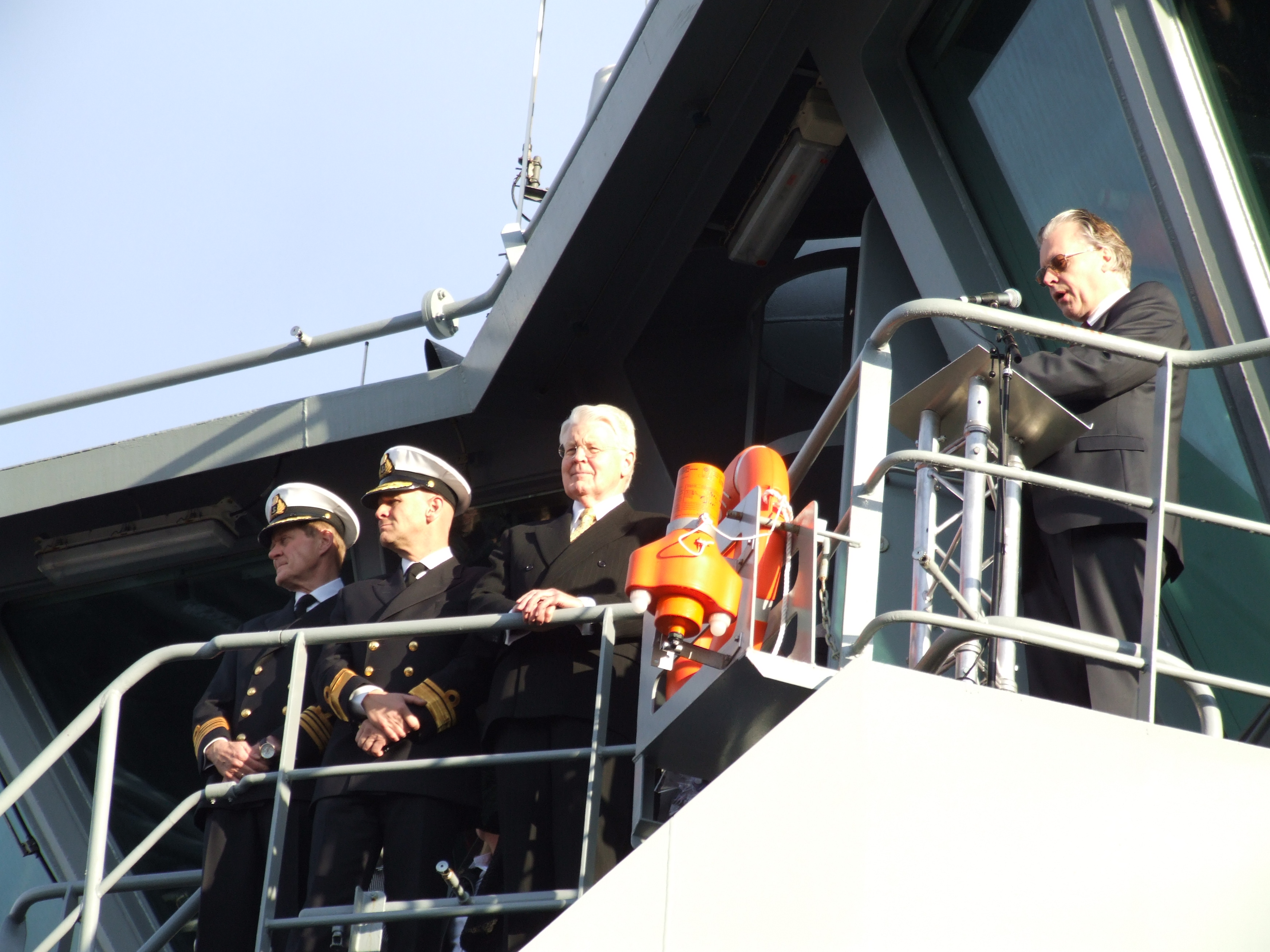 Arrival of Thor - Icelandic Coast Guard 2011-10-27 Reykjavik; From left: Sigurður Steinar Ketilson, Captain, Georg Lárusson, Director of the Coast Guard, President of Iceland, Ólafur Ragnar Grímsson and Ögmundur Jónasson, Minister of the Interior.